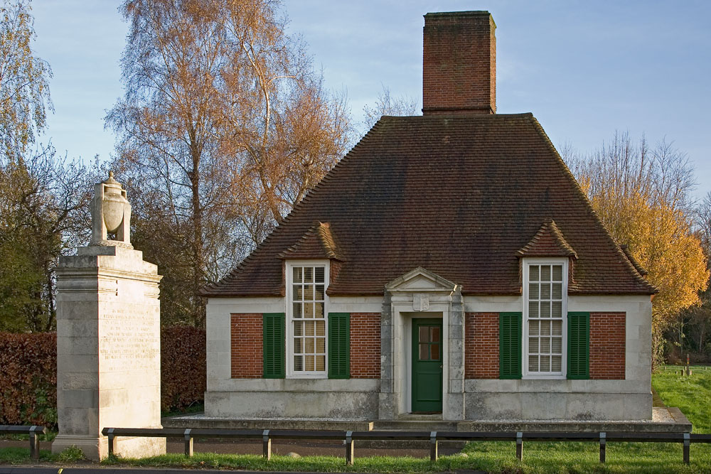 Lutyens designed commemorative lodge and pillar (one of pair) at Runnymede